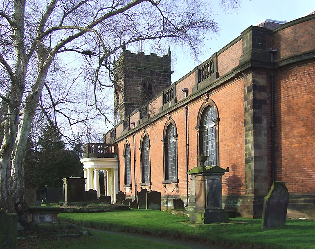 Church of St Mary and St Luke, Shareshill, Staffordshire There is information on this webpage